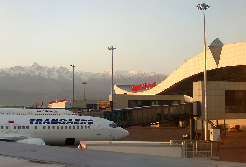 Sunrise over Almaty Airport, Kazakhstan